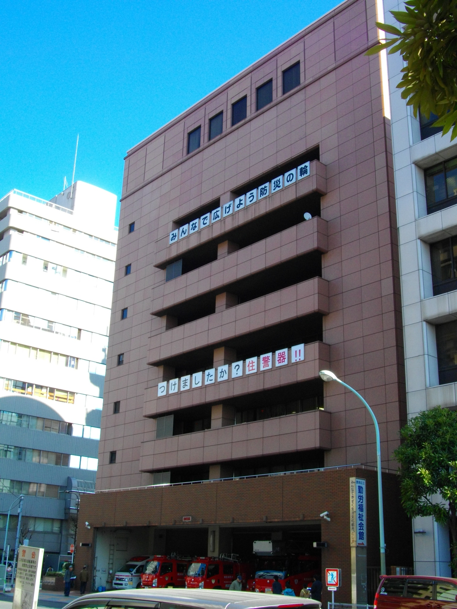 Ikebukuro Fire Station